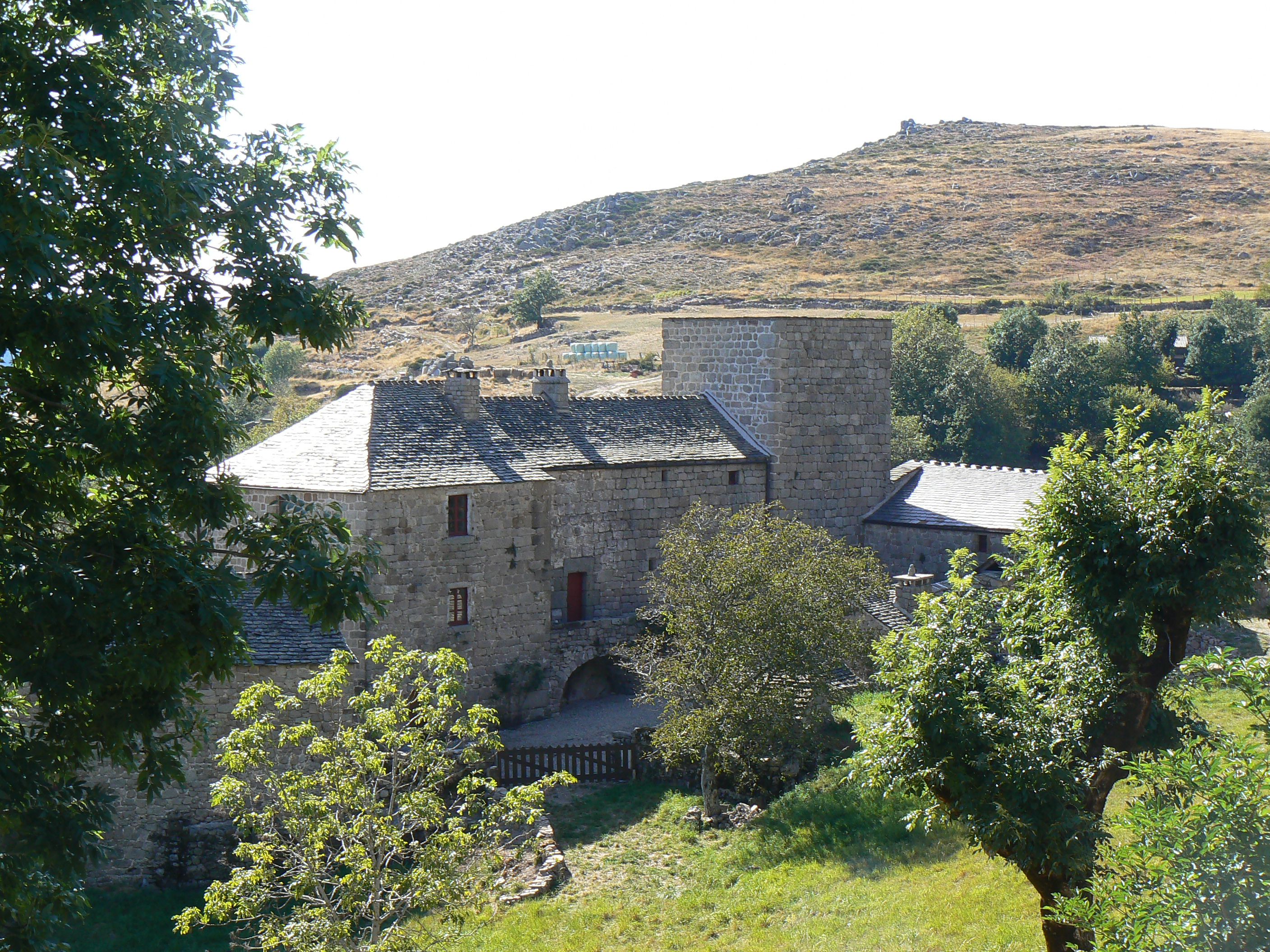 The castle of Grizac (birthplace of Pope Urbanus V (Le Pont-de-Montvert, Lozère)